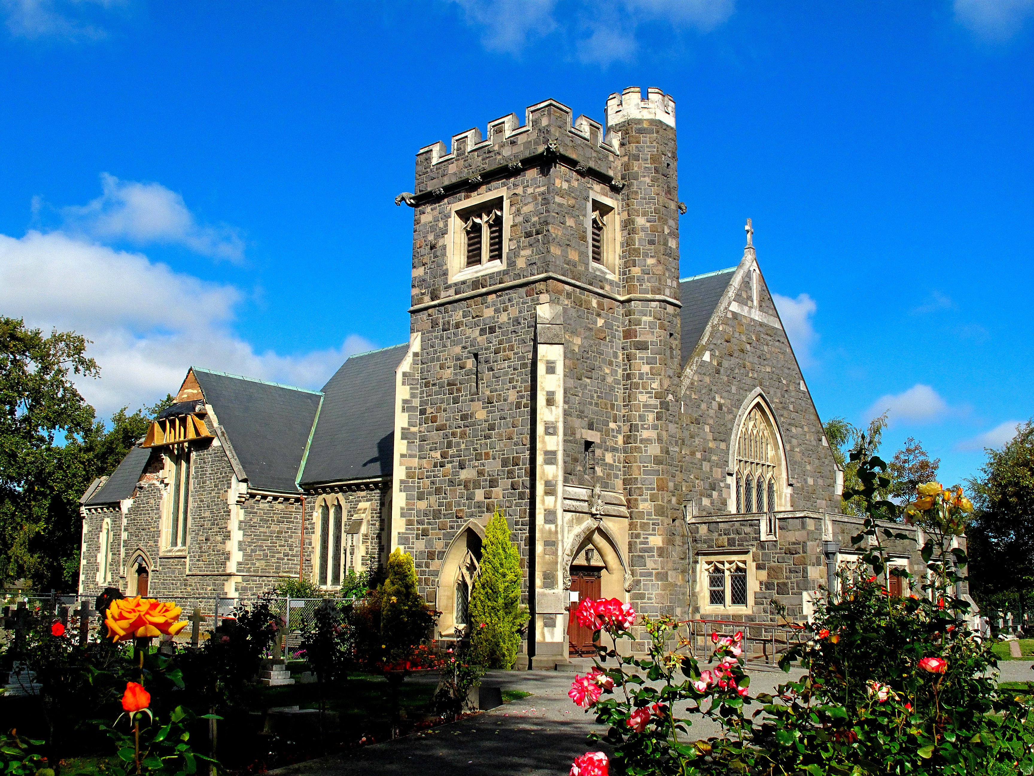 (Mon 21-3-2011) St Peter's Anglican Church on Yaldhurst Road was not spared damaged in the 22 February 2011 magnitude 6.3 earthquake that struck Christchurch.